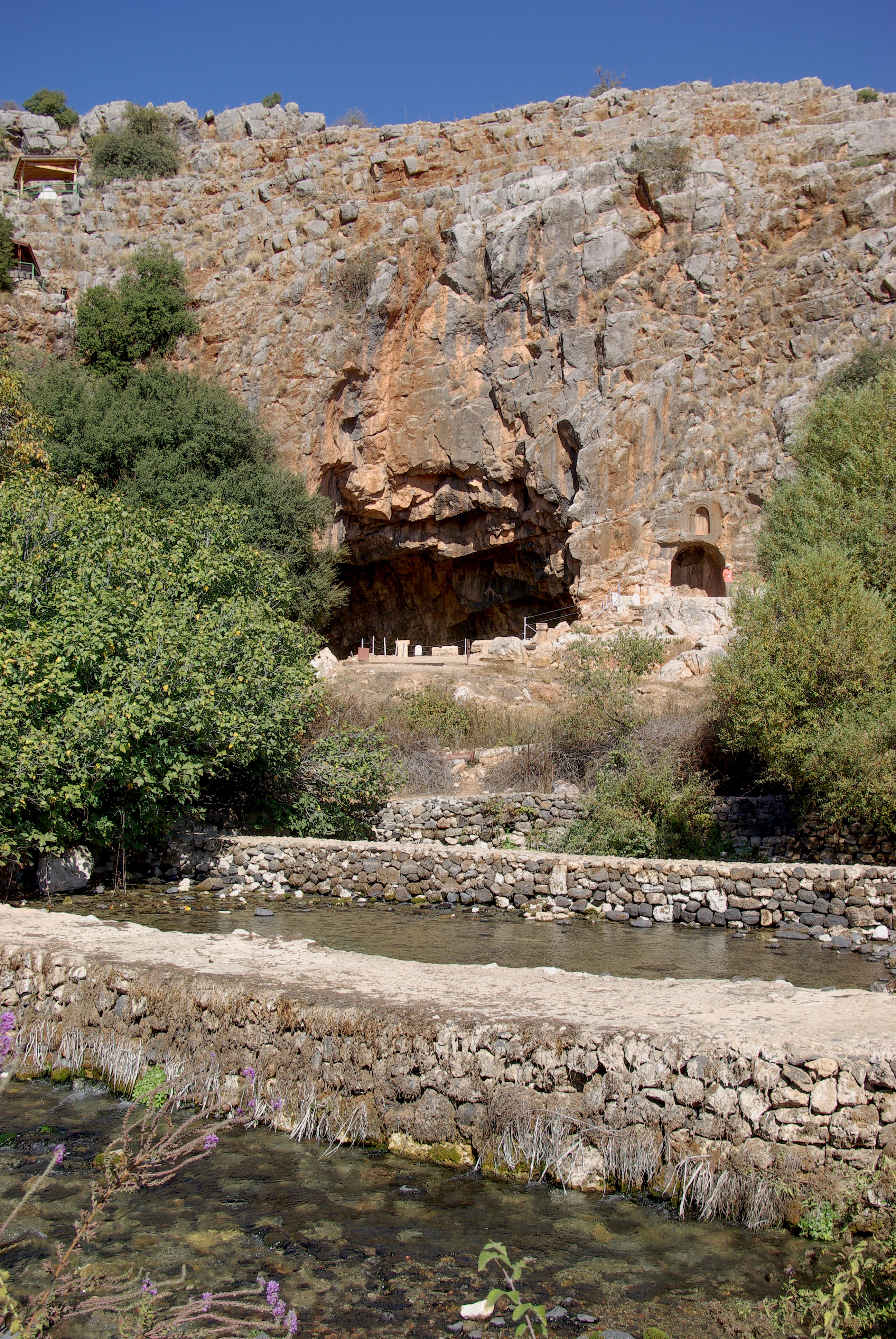 Banias spring with Pan's cave.